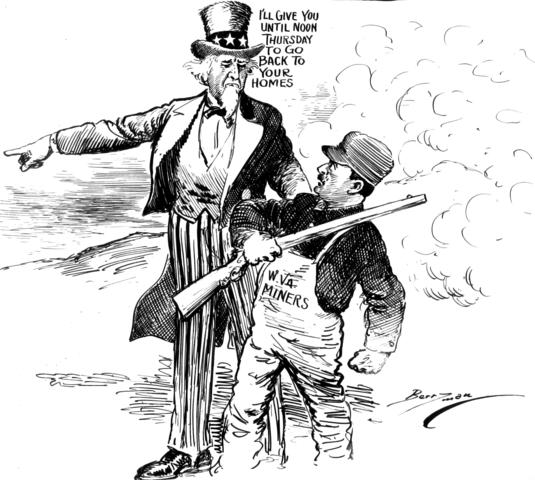 Federal troops had been called in to quell disturbances caused by strikes by West Virginia coal miners. Worried about the spread of violence, the U.S. Government ordered the miners to return to their homes. Cartoonist Clifford Berryman shows a stern Uncle Sam pointing the way home to a miner carrying a shotgun, telling him "I'll give you until noon Thursday to go back to your homes." Published August 31, 1921, in the Washington Evening Star.